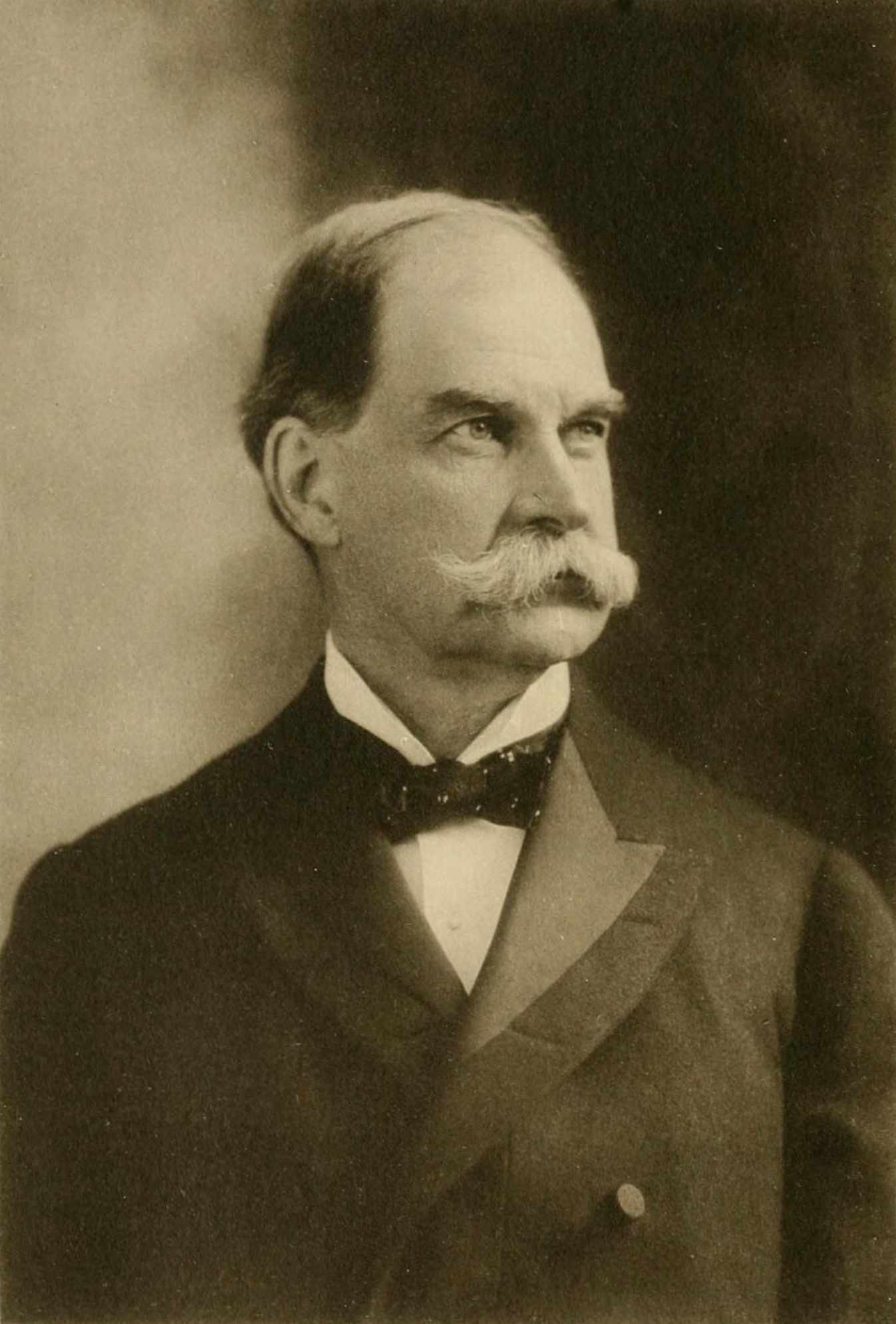 Abraham Lansing, New York State Senator and Treasurer